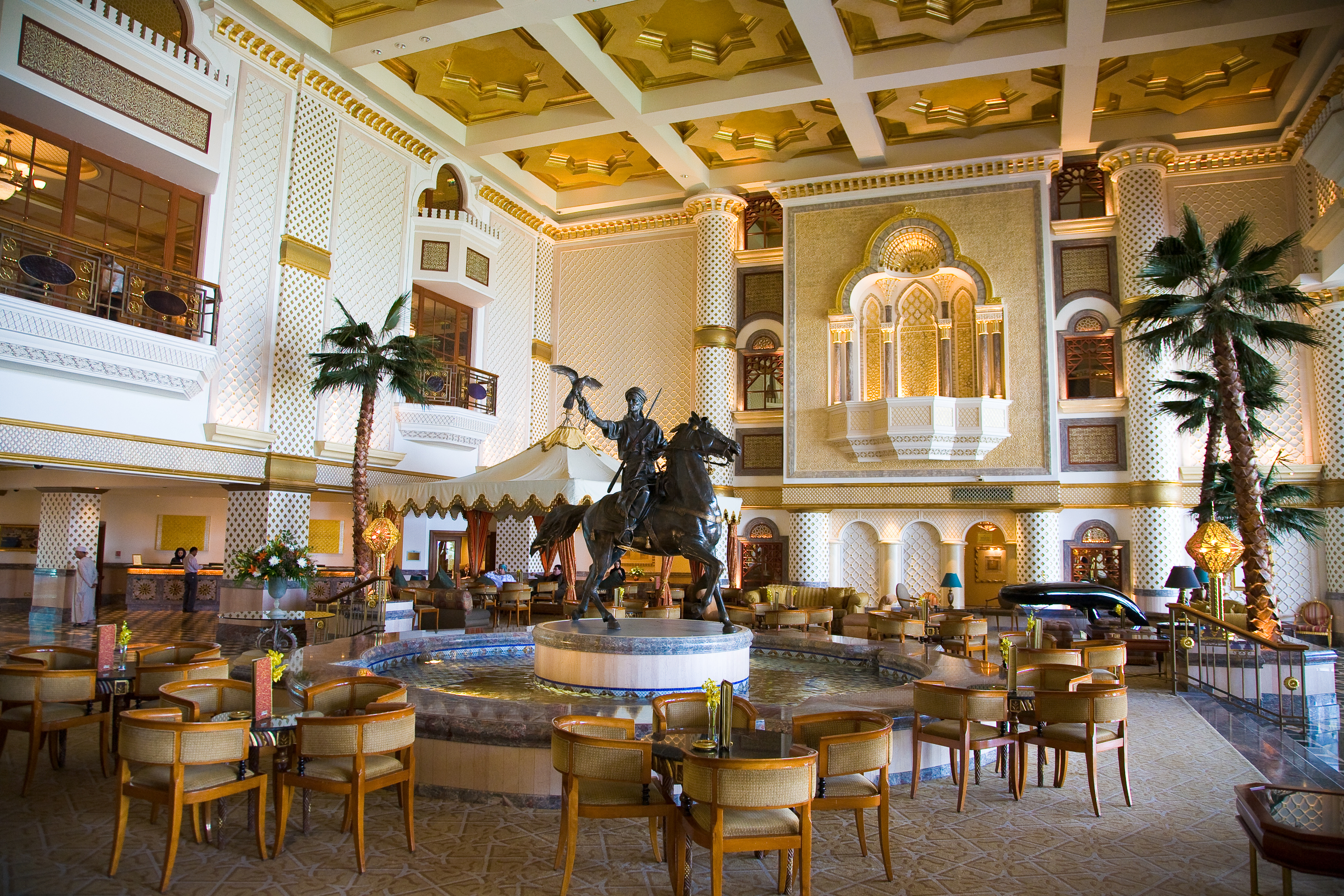 Hyatt hotel, Muscat, Oman